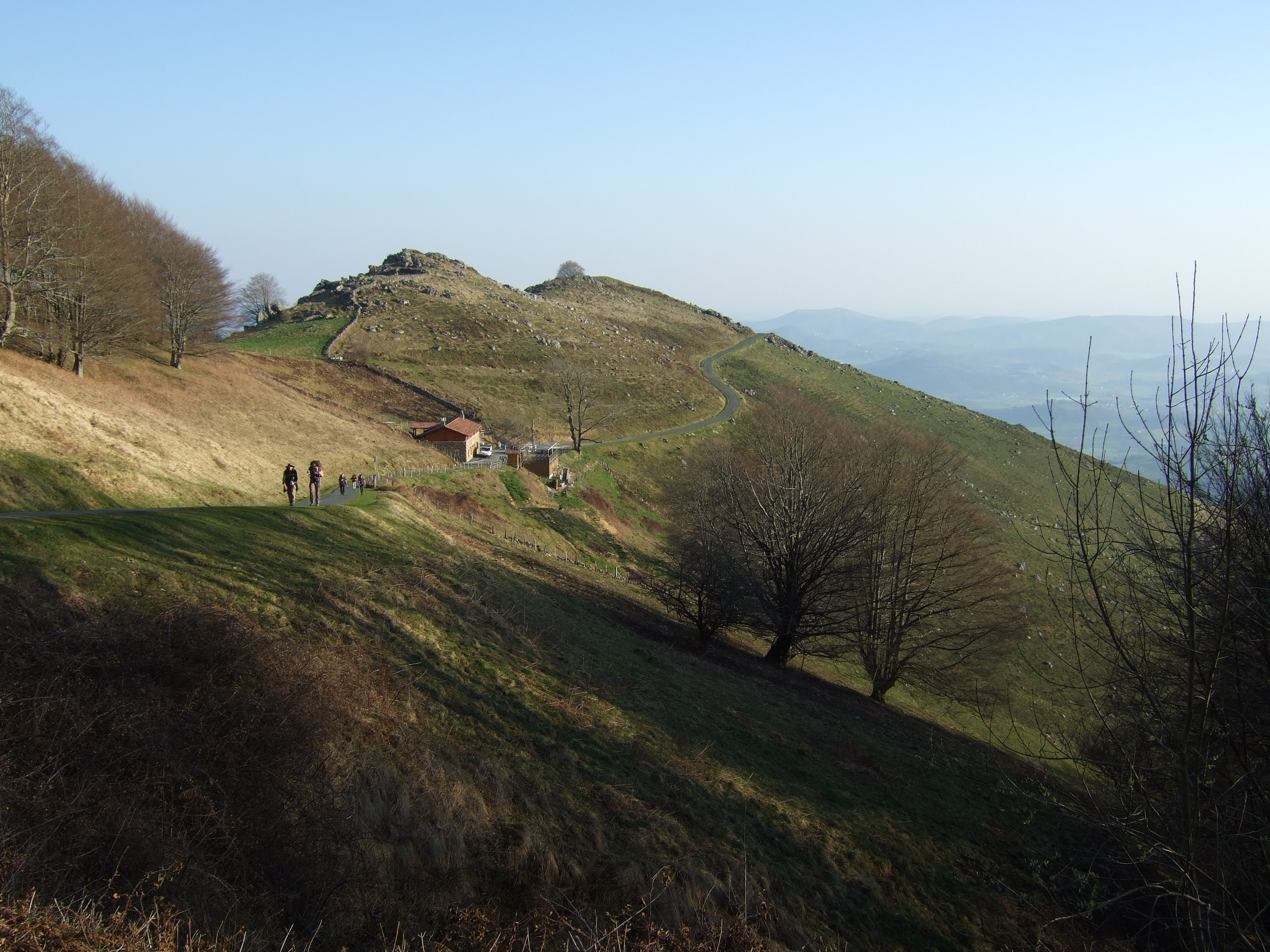 Orisson - Route Napoleon - camino frances